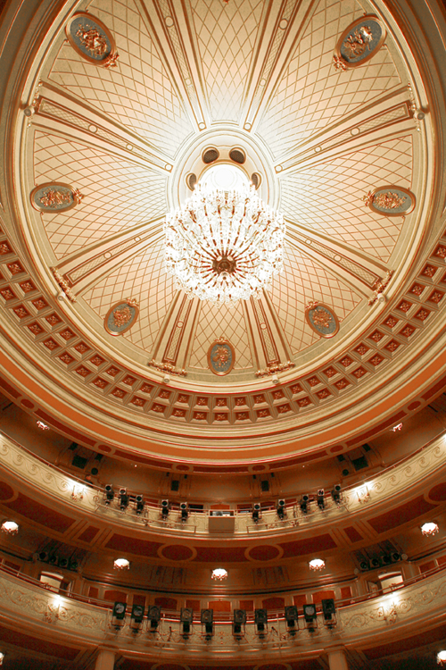 Berlin, Berlin State Opera, interior